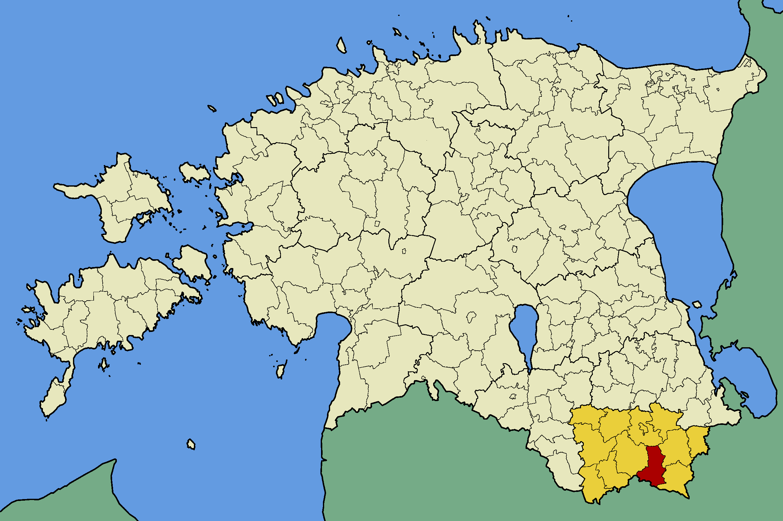 Map of Estonia with borders of municipalities (parishes). Võru county and Haanja municipality emphasized.